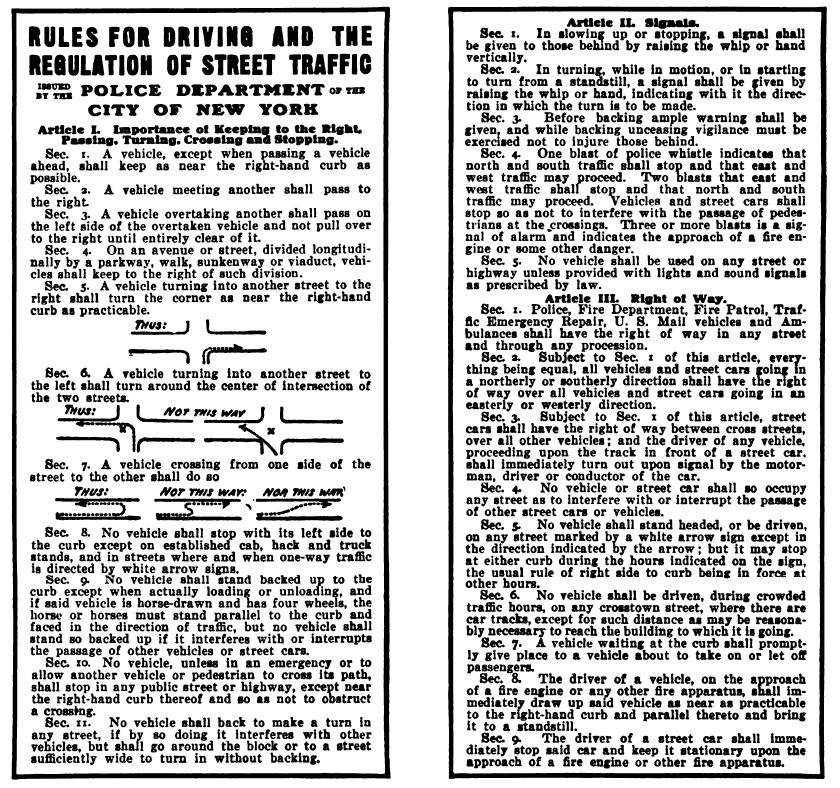 Traffic Regulations, New York City, February 8, 1909, 1 of 2, as drawn up by William Phelps Eno. Reproduced in Street Traffic Regulation, 1909, by William Phelps Eno. This work is in the public domain because it was first published in the United States before 1923.